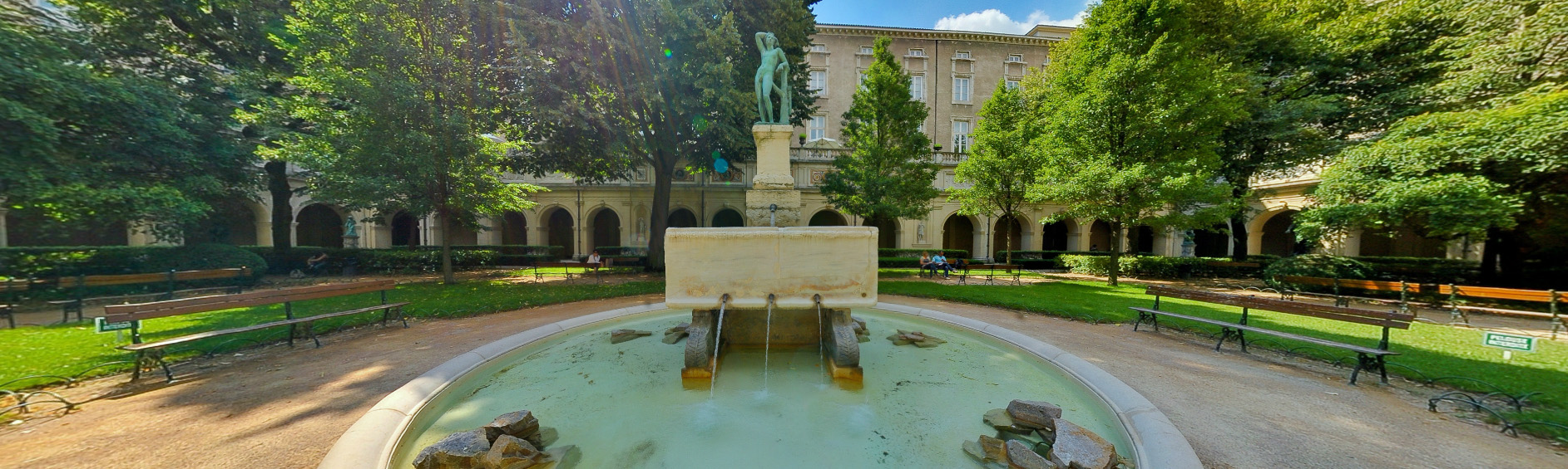 Panorama of the garden of the cloître of the museum of fine-art of Lyon